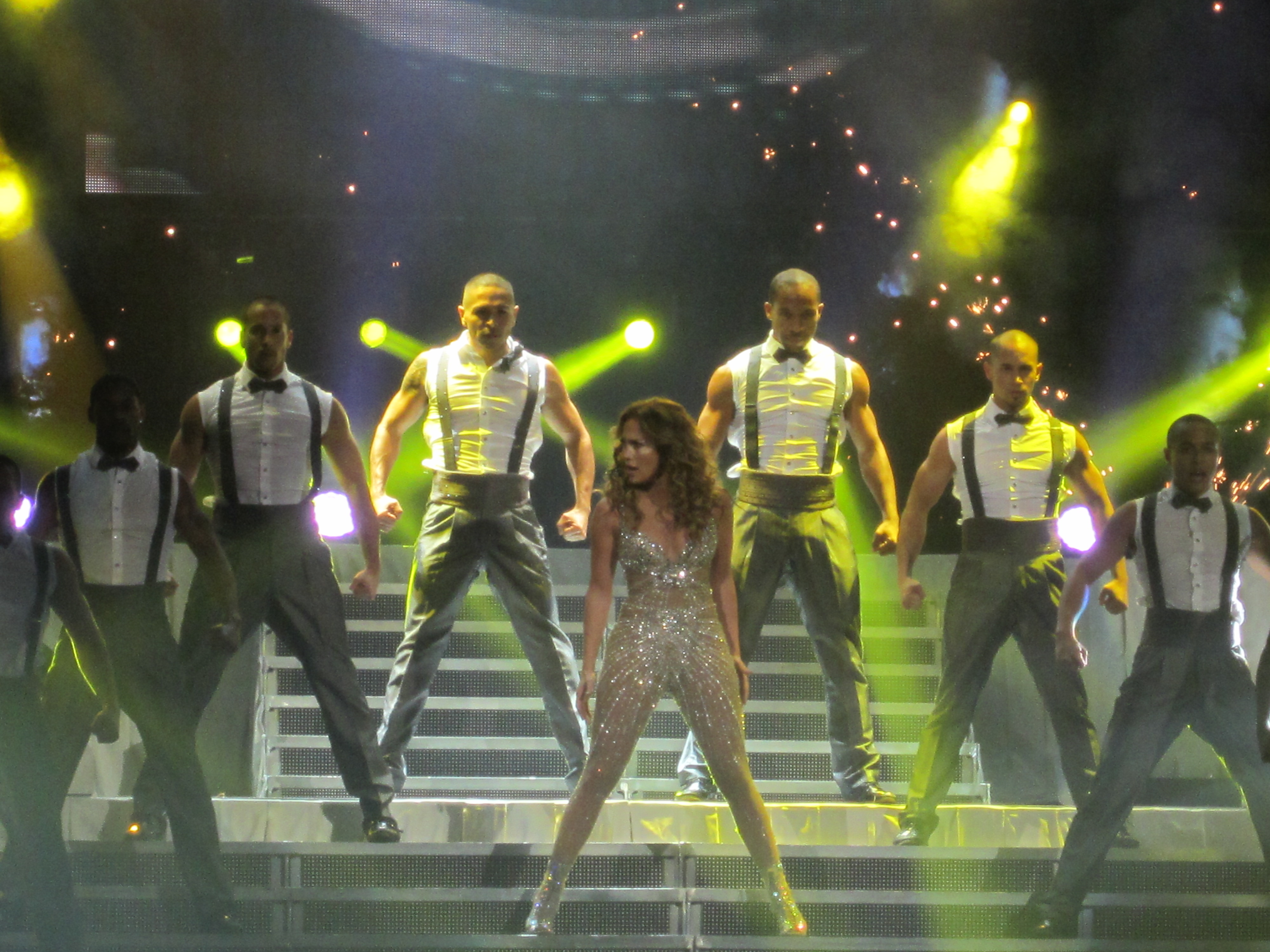 Jennifer Lopez - Toronto, CA - Dance Again world tour.